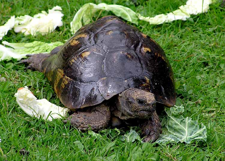 Spur-thighed Tortoise (Testudo graeca) at Combe Martin Wildlife and Dinosaur Park, North Devon, England. Taken by Adrian Pingstone in July 2004 and released to the public domain.